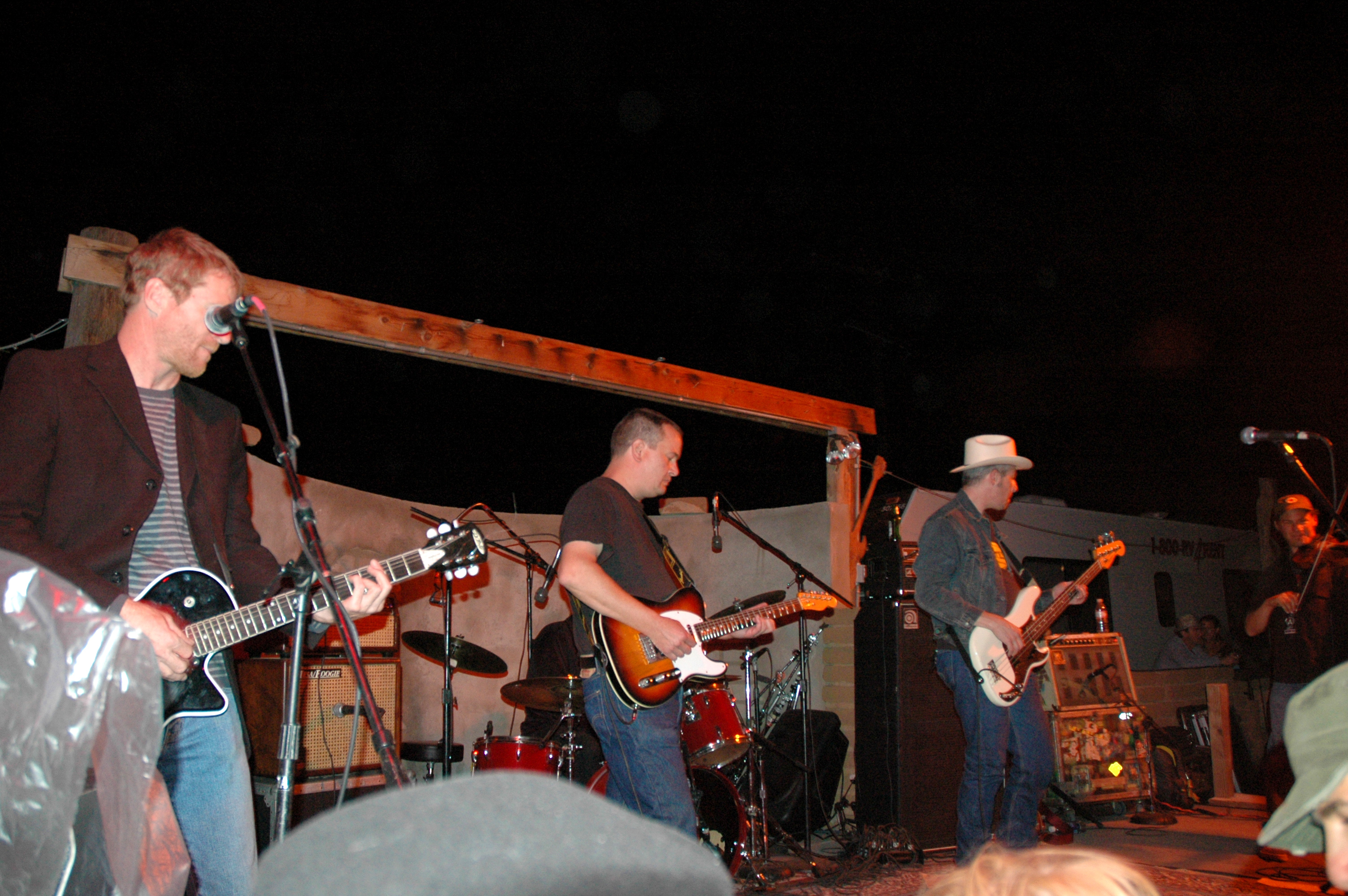 Camper Van Beethoven: Jonathon Brings it Home